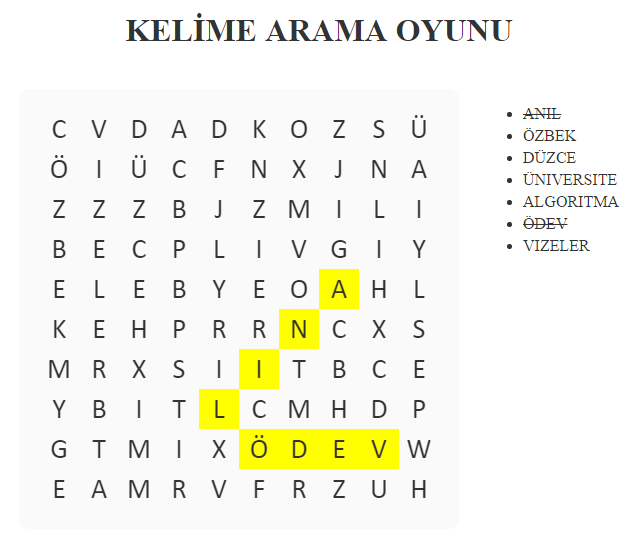 Bilgisayar ortamındaki bir kelime arama oyunundan alınmış ekran görüntüsü